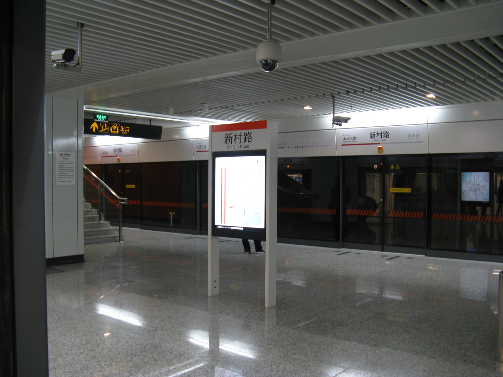 Xincun Road Station Line7 Shanghai Metro